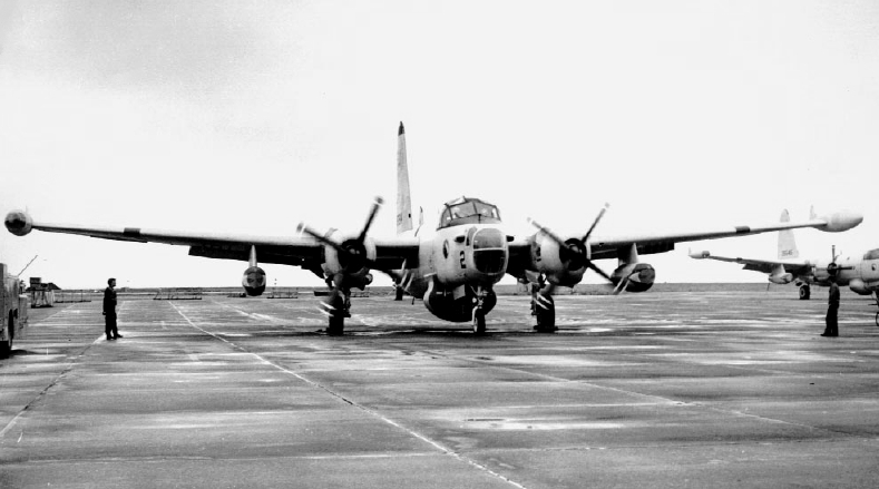 U.S. Navy Lockheed SP-2H Neptunes of Patrol Squadron VP-69 at the Naval Air Station Whidbey Island, Washington (USA).